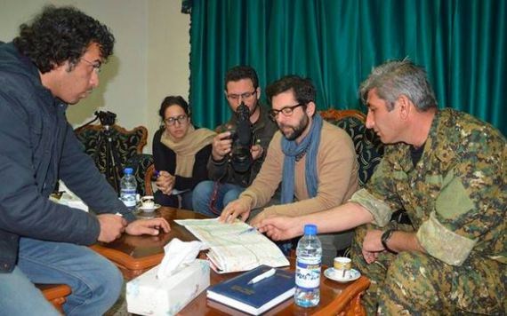 YPG commander Rêdûr Xelîl with a delegation of Human Rights Watch. Kurdî: Şandeya HRW ligel Berdevkê YPG Rêdûr Xelîl xuya dibe